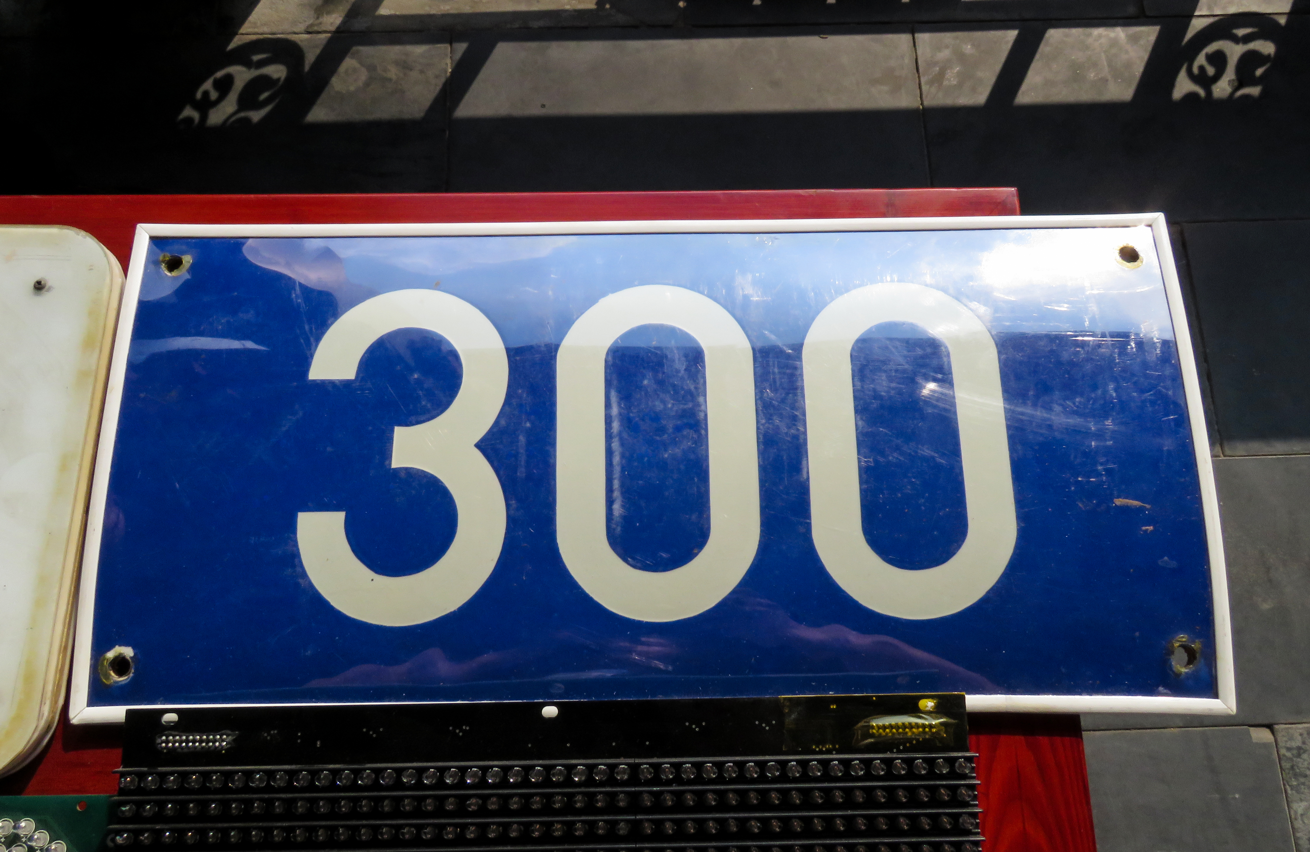 The spirit of the front-engined with vacant seats... right here!